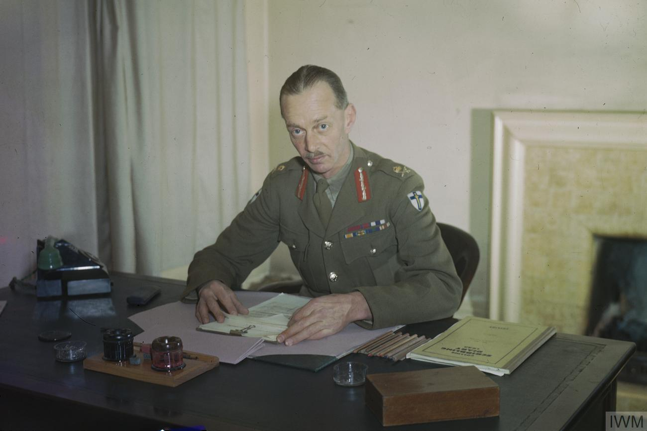 Lieutenant General M C Dempsey, Cb, Dso, Mc, Commander in Chief, British Second Army, April 1944 Half length portrait of Lieutenant General Dempsey at his desk.